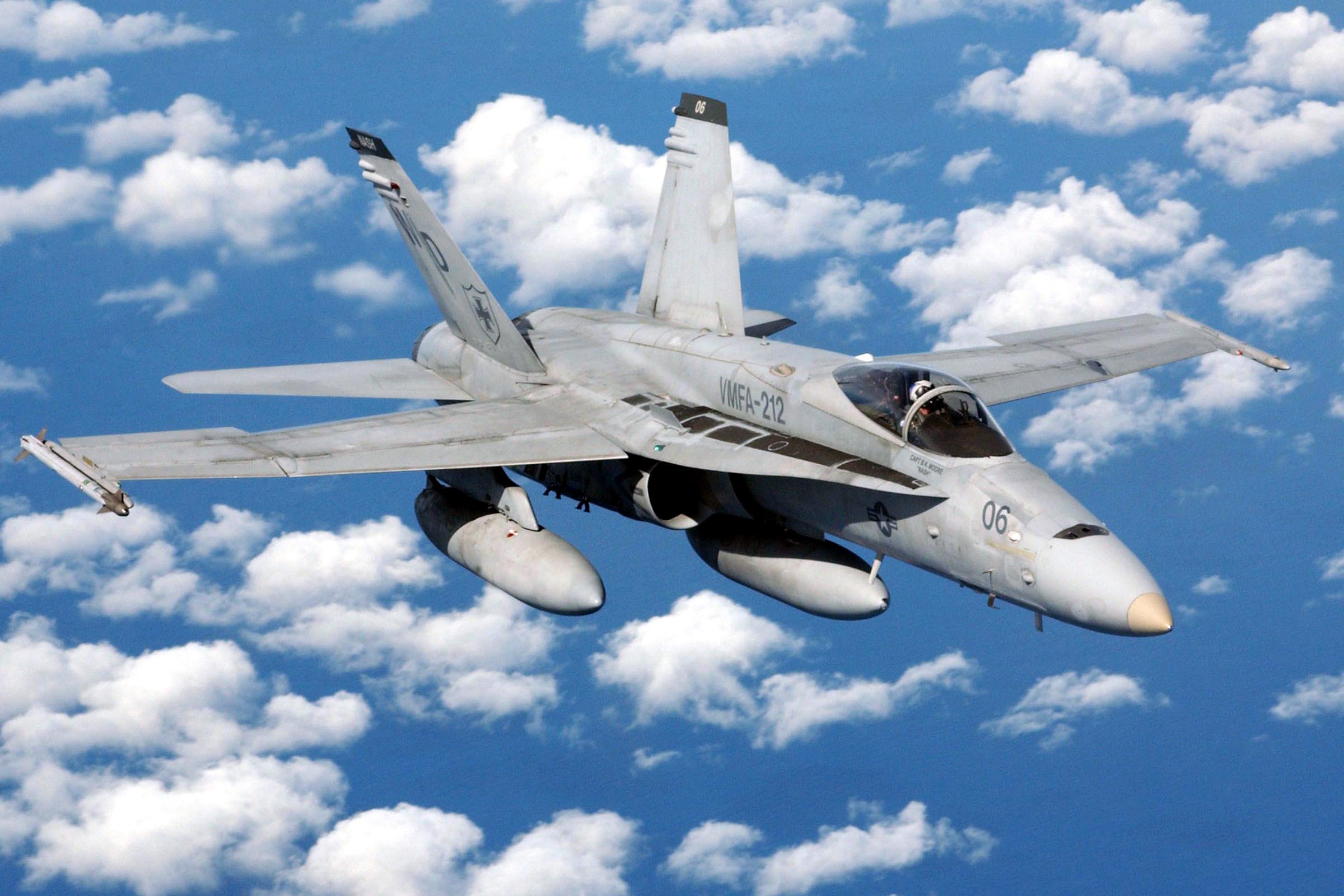 U.S. Marine Corps Captain Kevin Reece of Marine Fighter Attack Squadron 212 (VMFA-212), pilots his McDonnell Douglas F/A-18C Hornet over the South China Sea on the return trip from Paya Lebar, Singapore to Marine Corps Air Station (MCAS) Iwakuni, Japan, in support of exercise "Commando Sling" on 8 October 2003.